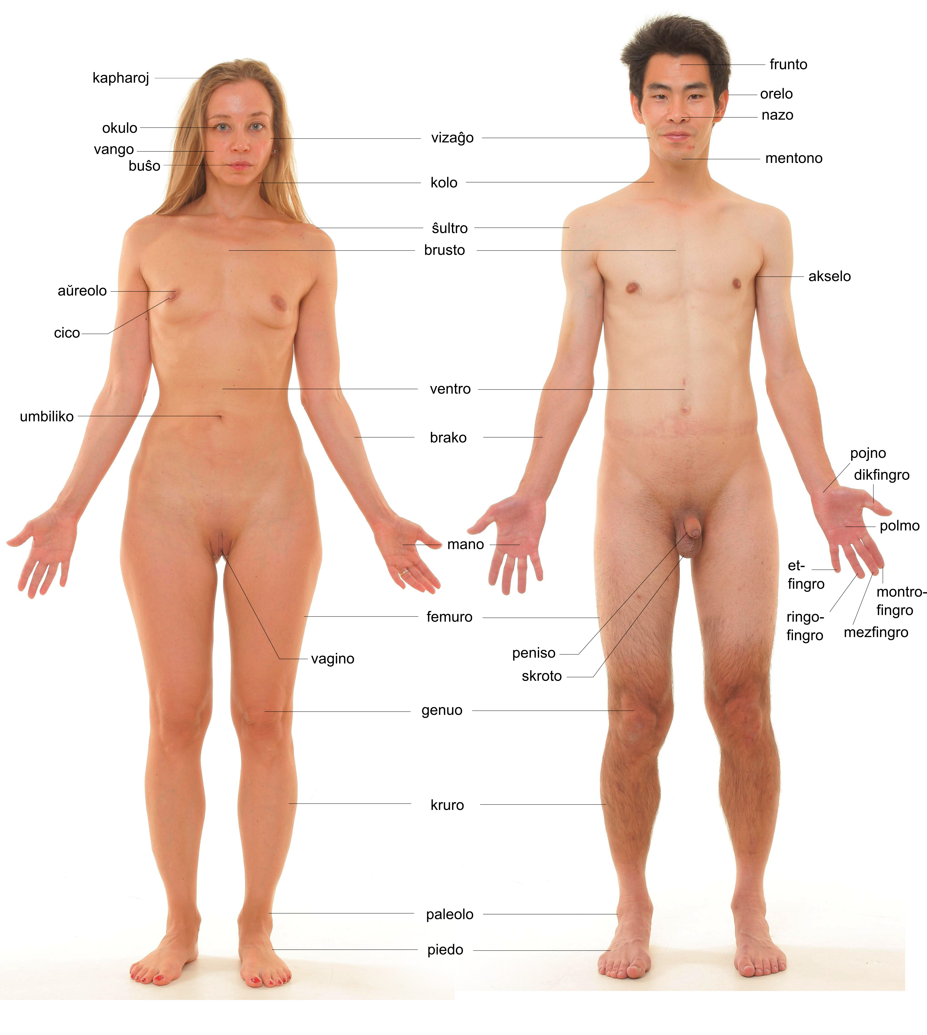 Naked female and male human body with labels.